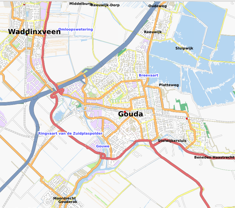 This map of the city of Gouda and surrounding area was created from OpenStreetMap project data, collected by the community. This map may be incomplete, and may contain errors. Don't rely solely on it for navigation.